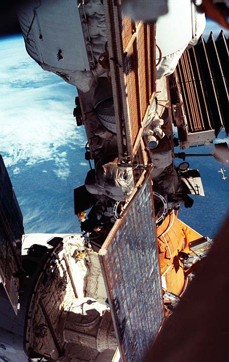 A view of the Russian space station Mir as seen from the Space Shuttle Atlantis while docked at the station during STS-81. The crew compartment, nose and a portion of the payload bay of Atlantis are visible, behind Mir 's Kristall and docking modules.